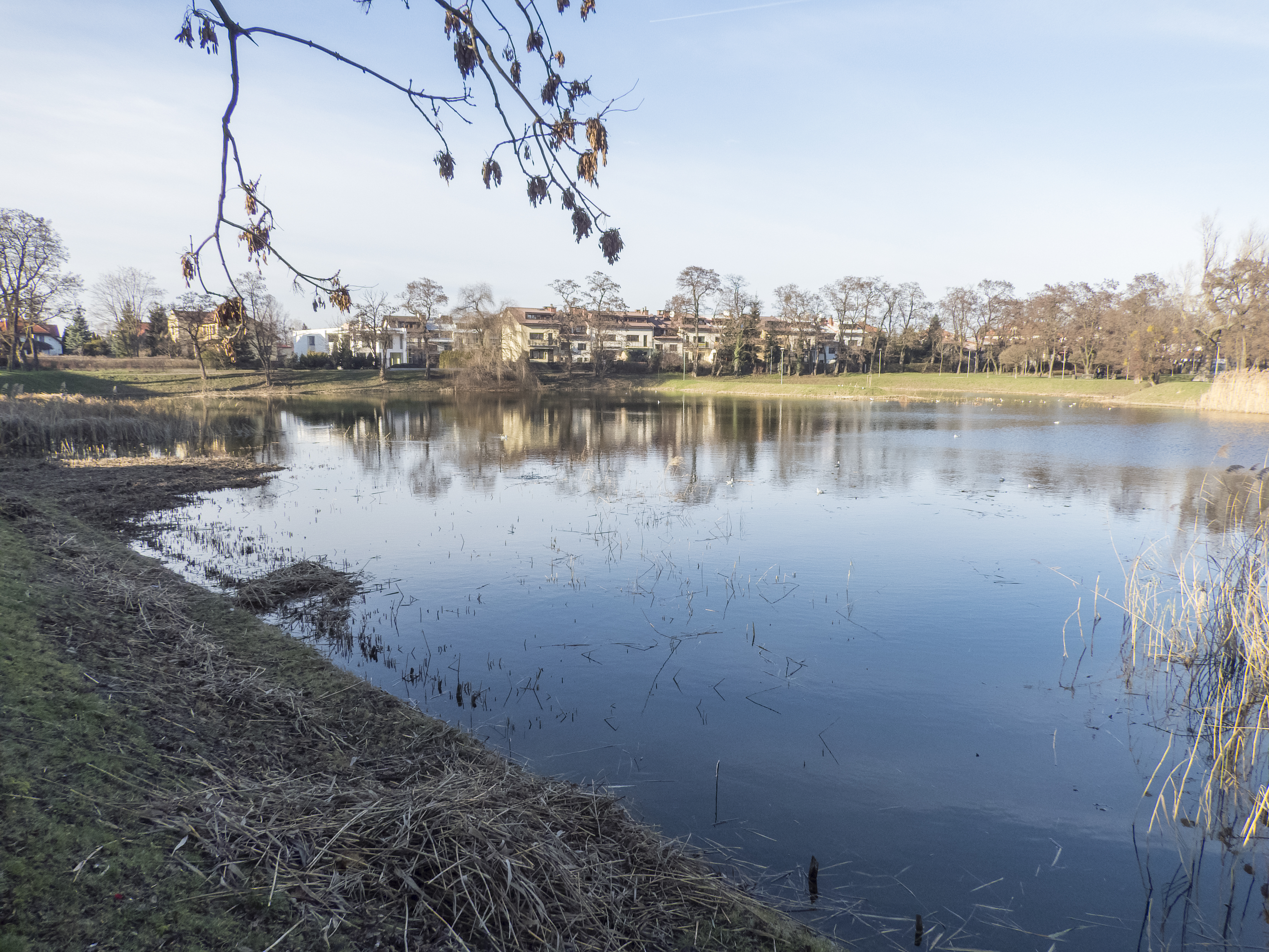 Pond Glinianka Krańcowa in Warsaw, Włochy district